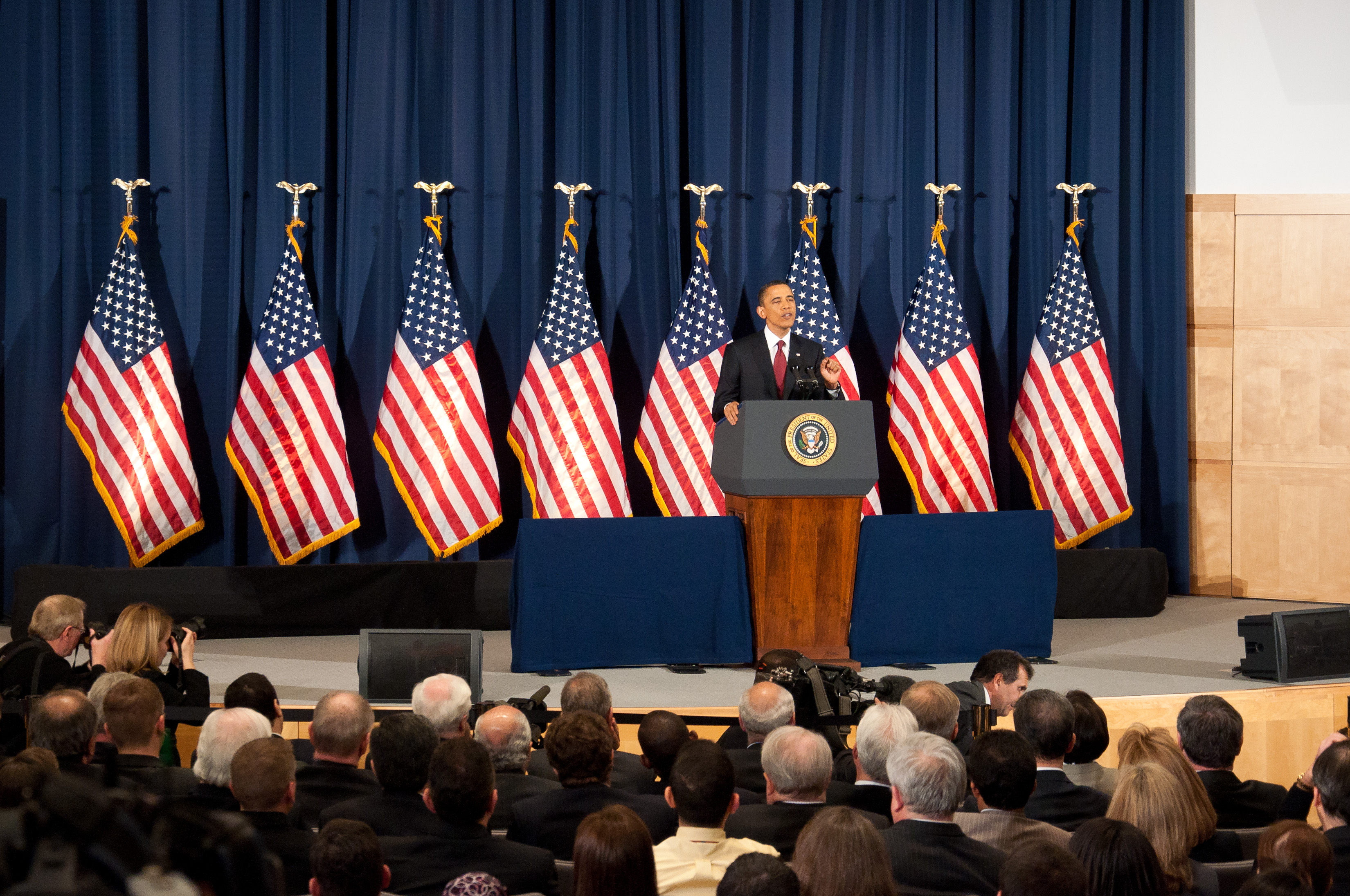 On Monday, March 28, 2011, President Barack Obama delivered an address at the National Defense University in Washington, DC to update the American people on the situation in Libya, including the actions the U.S. government has taken with allies and partners to protect the Libyan people from the brutality of Moammar Qaddafi, the transition to NATO command and control, and policy going forward.